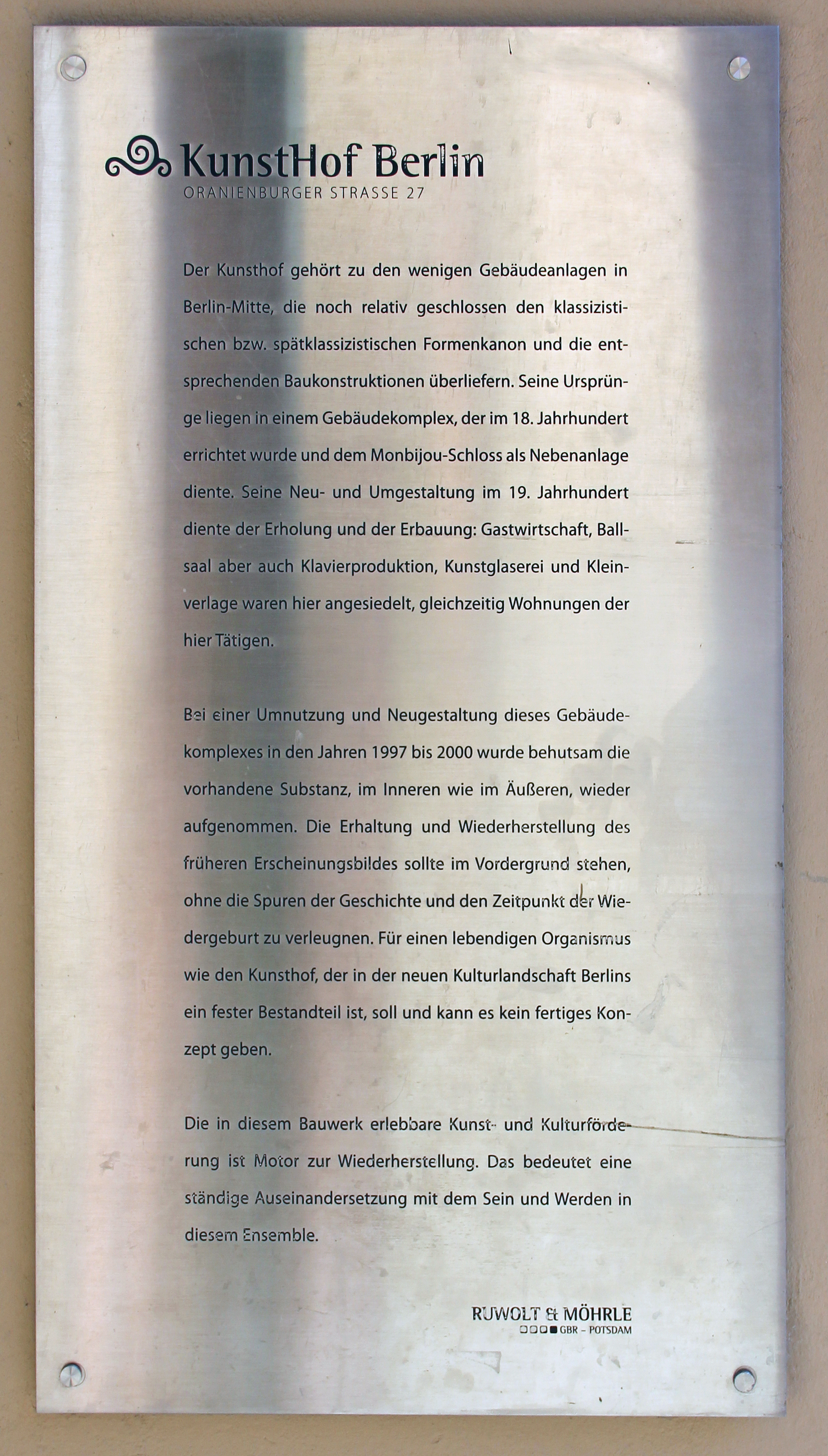 Memorial plaque, Kunsthof Berlin, Oranienburger Straße 27, Berlin-Mitte, Deutschland